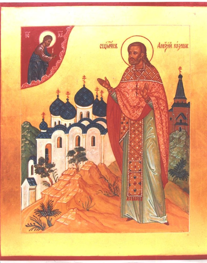 Alexiy Sibirsky